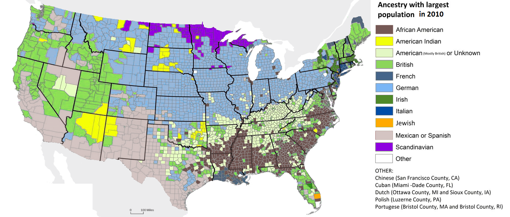 This file is a map of the continental United States showing its ancestrial majority, according to 2010 surveys and the Census Bureau.